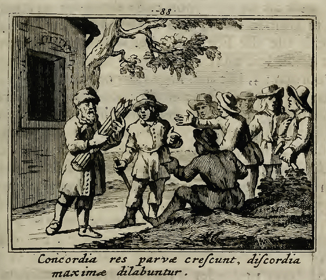 An illustration by Jacob Gole from Pieter de Court's Sinryke Fabulen (1685), illustrating the story titled there as "The Farmer and his Seven Quarrelsome Sons".